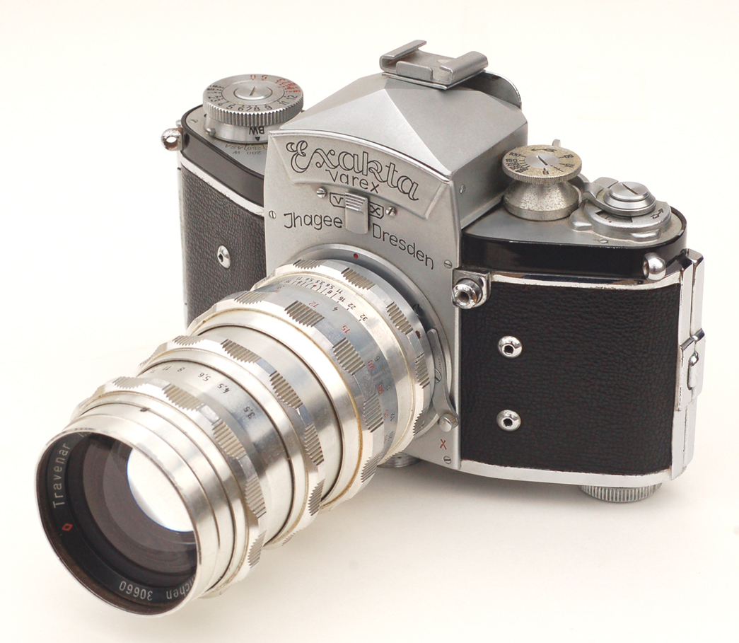 The Exakta cameras are very popular with collectors, and documentation is abundant. McKeown's, however, is my only real reference source, and so I'm not quite sure what to call this camera, based on their photos. Perhaps some Exakta enthusiast out there will enlighten me. In any case, I can tell you that this camera was made by Ihagee Kamerawerk in Dresden, Germany in 1950 or 51, and that the Varex was the first 35mm camera with an interchangeable pentaprism finder. This example is shown fitted with a Schacht Travenar 135mm 3.5 lens.